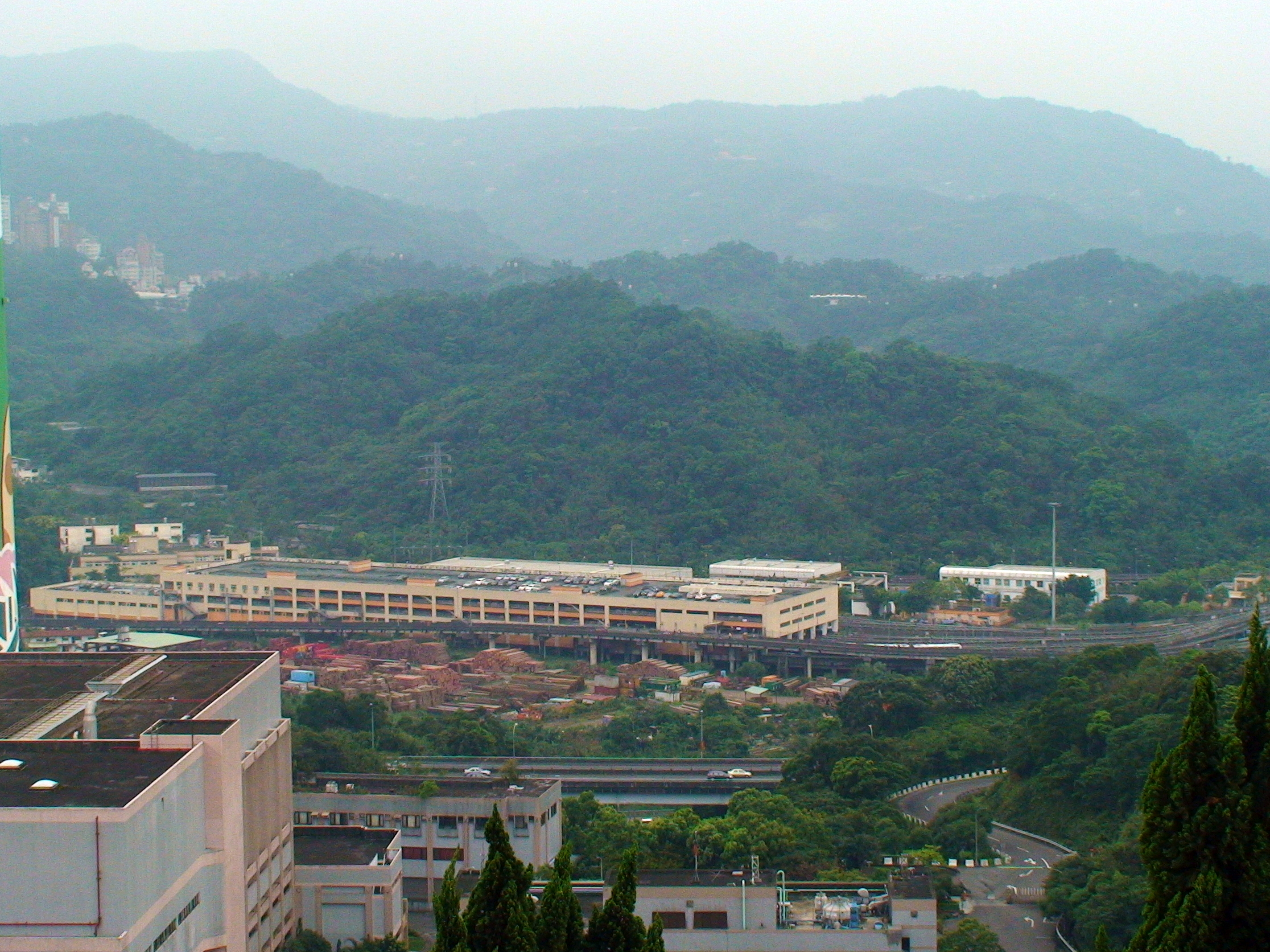 Muzha Depot of Taipei Metro (TRTC).